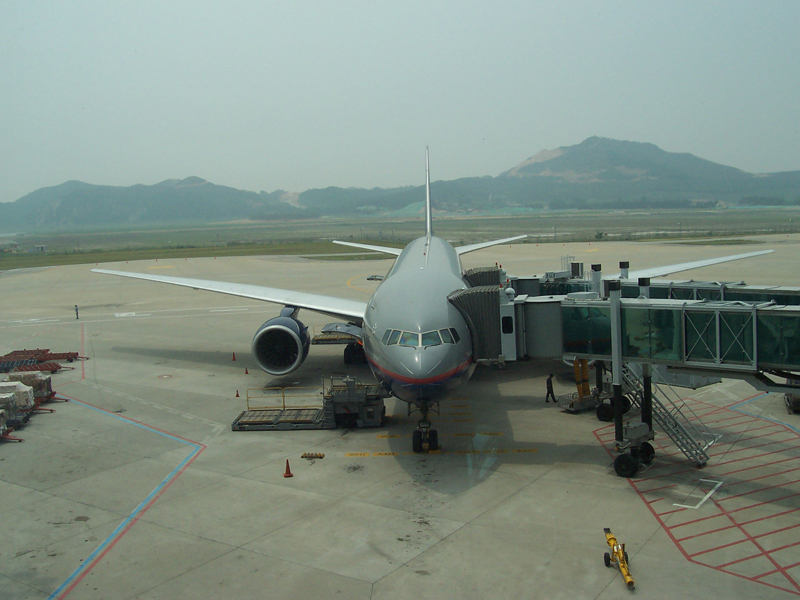 At Seoul Incheon (ICN), almost ready to board for the daily service back to San Francisco. There is also an Asiana Airlines codeshare flight number for this flight. Previously in 1994, the Seoul-San Francisco route on United was the route that allowed me to travel between my then-idol, Mariah Carey, and some of her big fans. This is a very sentimental route for me for that reason. That means this photo depicts my favorite airline, operating my favorite aircraft, out of my favorite airport, on my favorite route. On most Seoul-US routes (especially Los Angeles and New York), Korean Air and Asiana Airlines run a duopoly, and are preferred by the Korean-Americans visiting their homeland, but their fares are quite high, and if one does not mind changing planes in San Francisco or Tokyo Narita, United is a less expensive and just-as-solid alternative. Oftentimes United 892/893 was the only nonstop flight between the US and South Korea operated by a US airline, as all other services came via Tokyo Narita. Moreover, I cannot stand the Christian theocratic elements that would later take over South Korea in 2007. Korean Air is the airline for them, and their stateside Religious Right masters; I'll stick to United, whose "Lesbian-Friendly Skies" I had appreciated in 1999, and who would make a great middle finger to shove at the homophobic theocrats of South Korea's far-right government. The empty ground in the background would gain a new runway, 16/34, in 2008, becoming Incheon's third and longest runway. At the same time, a satellite terminal was opened, and all foreign airlines, including United, relocated there. United would also upgauge this flight to a 747. "Come fly the airline that's uniting the world. Come fly the friendly skies." (I certainly got to unite Mariah Carey with her fans on this route.) N216UA, Boeing 777-200ER (XP)